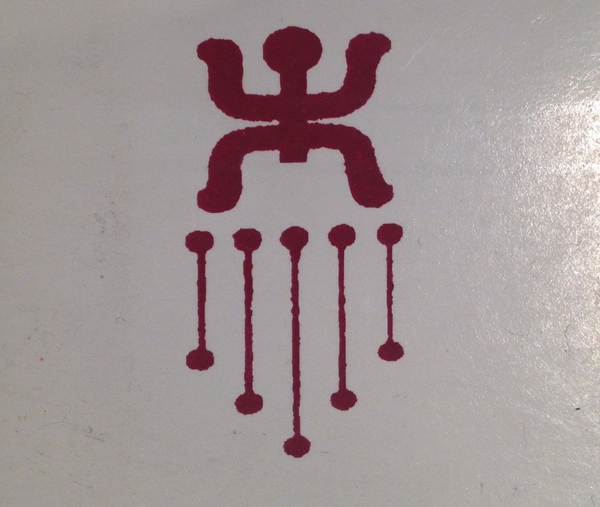 Image of a swastika from a Bengali wedding invitation printed in 2006